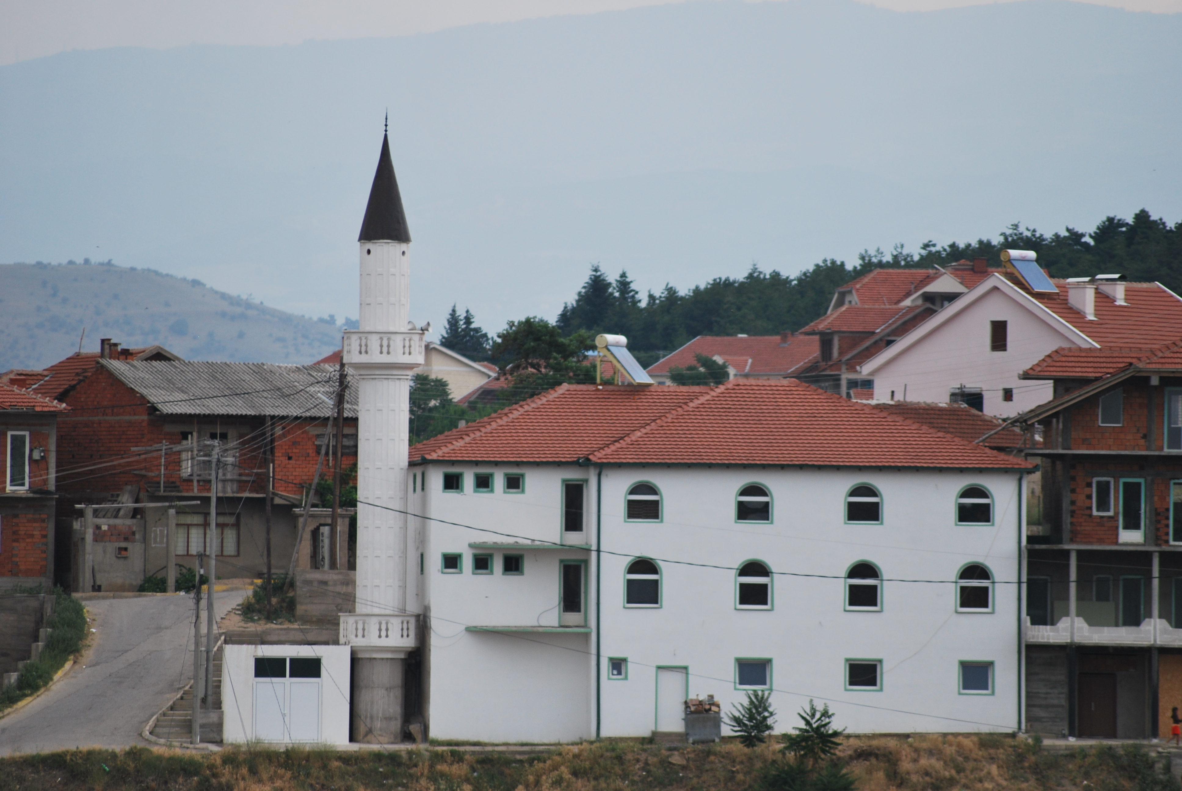 Vinica, Macedonia